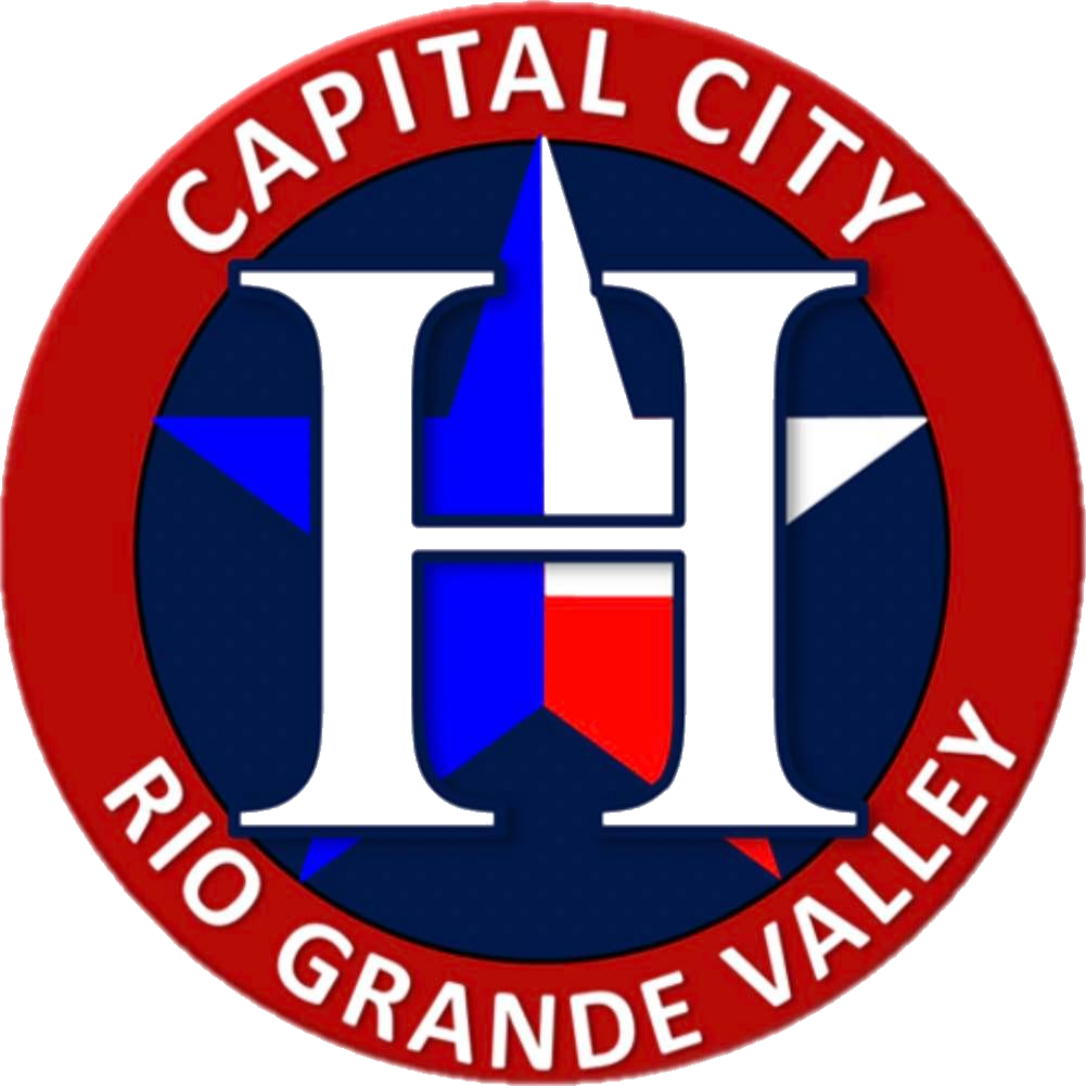 Seal of Harlingen, Texas